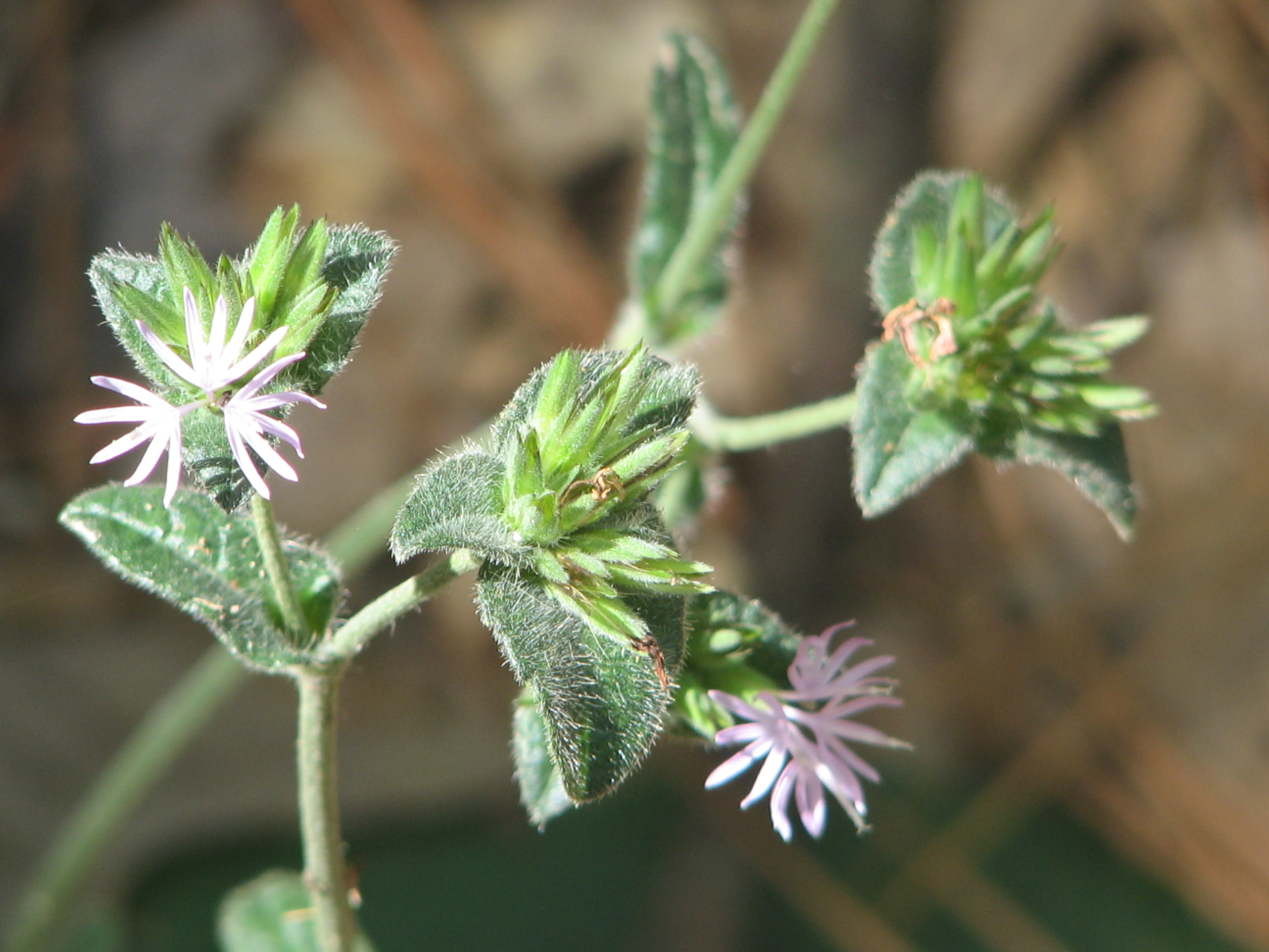 Elephantopus tomentosus at Congaree National Park, South Carolina, USA